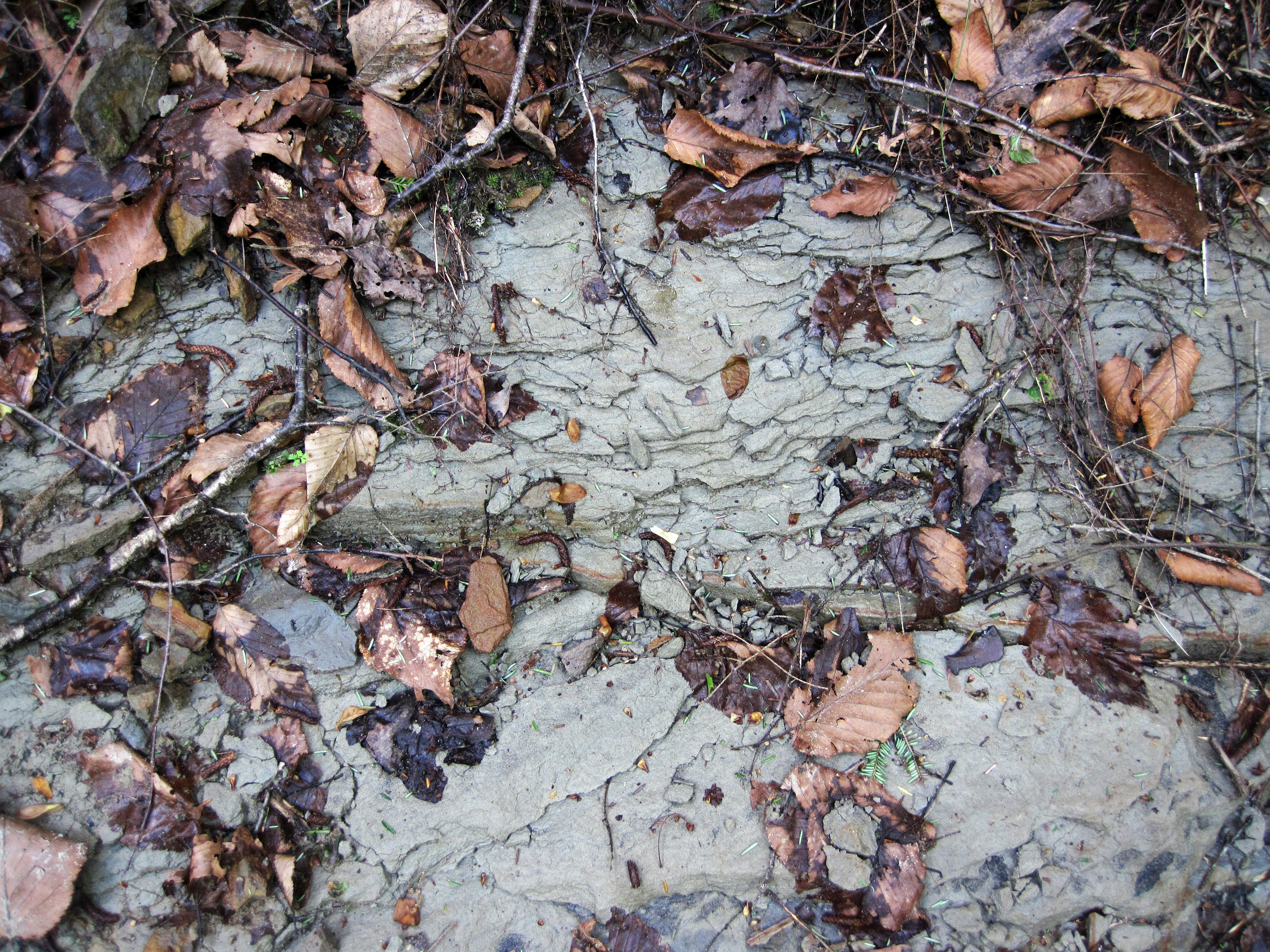 Eastern Ohio's Cuyahoga Formation is a Lower Mississippian marine unit composed of mixed siliciclastics - shales, siltstones, and sandstones. Fine-grained and coarse-grained intervals are often designated as separate members. The gray sandstone shown here has been assigned to the Fairfield Member. This outcrop occurs unconformably just below the Black Hand Sandstone. Stratigraphy: Fairfield Member, Cuyahoga Formation, Kinderhookian Stage, lower Lower Mississippian Locality: low outcrop near the southwestern edge of the Lower Falls plunge pool basin, Old Man's Cave Gorge, Hocking Hills, southeastern Ohio, USA (~39º 25' 56.43" North latitude, ~82º 32' 39.90" West longitude)